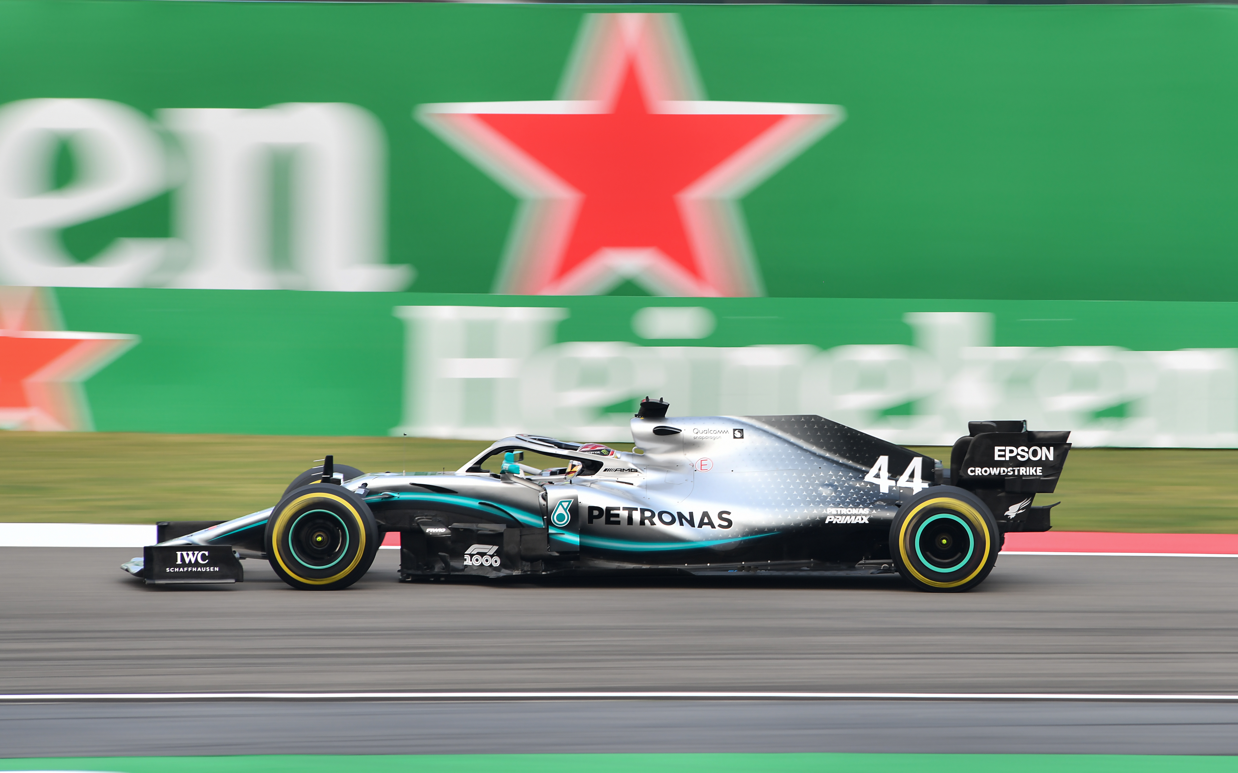 2019 Chinese Grand Prix Hamilton.